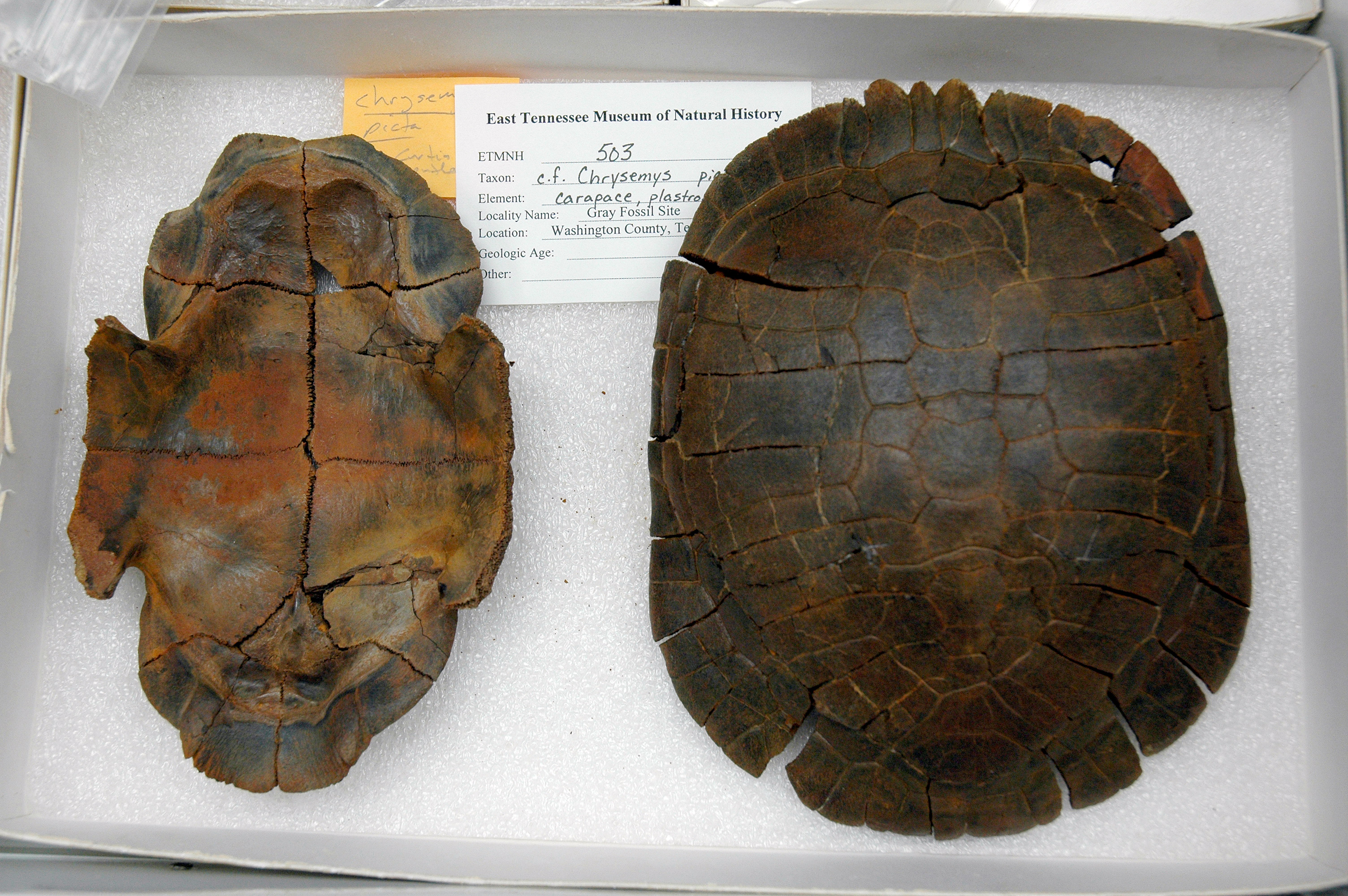 Top and bottom shell fossil Chrysemys species (cf C. picta), photographed by Robert Williams, Norwegian government employee, from the Gray fossil site.